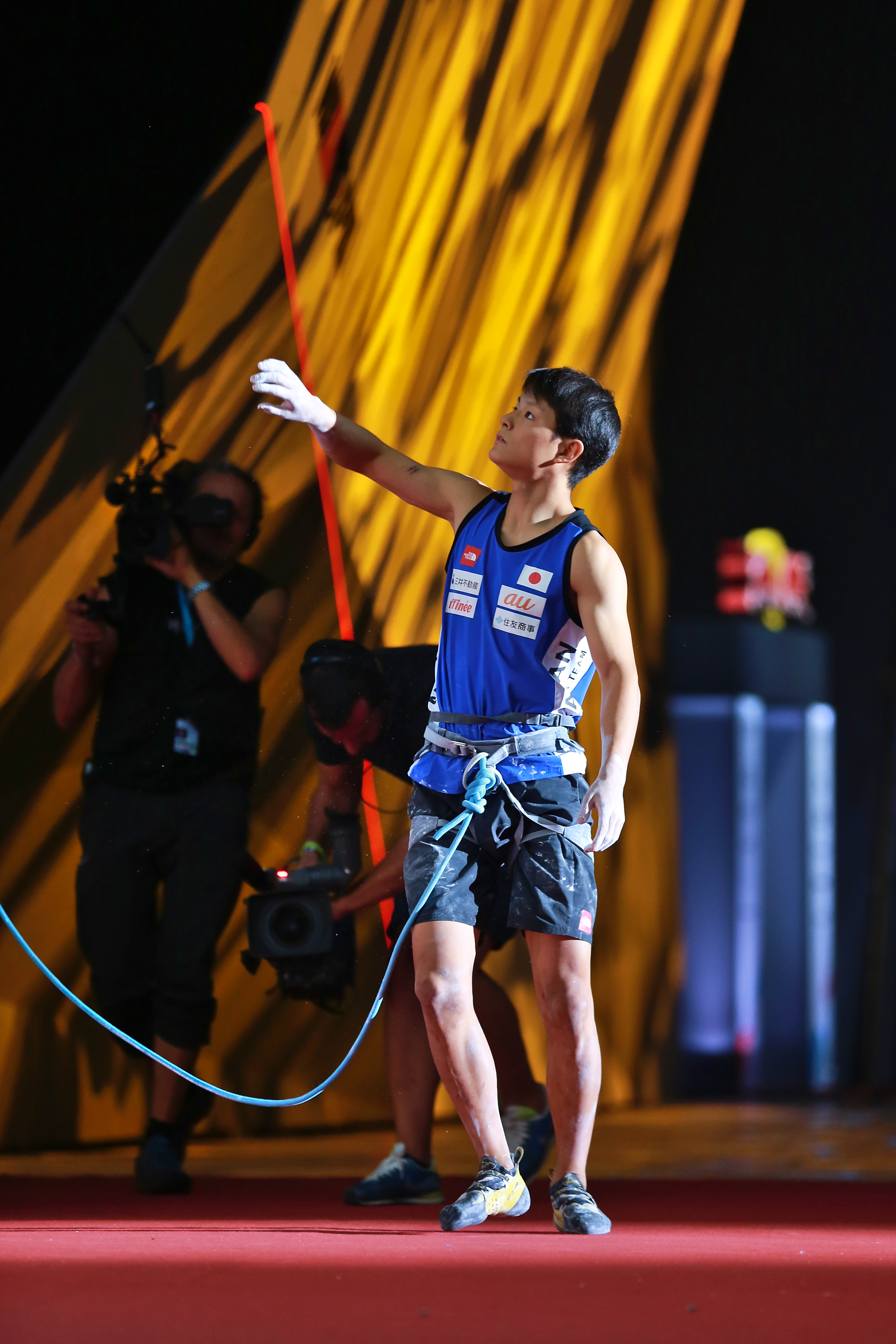 Climbing World Championships 2018 Lead Semi Tanaka